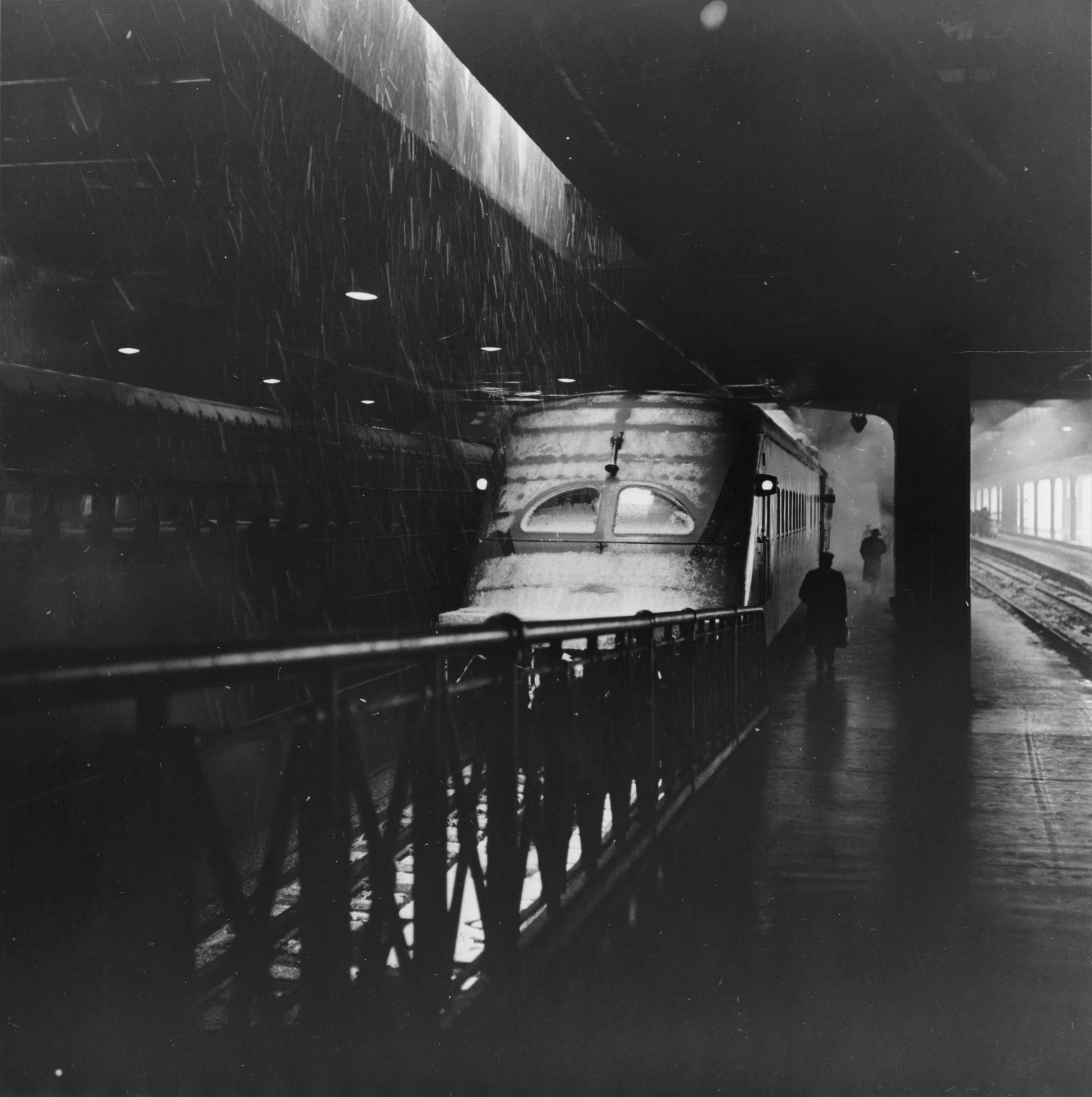 Chicago, Illinois. One of the Chicago, Milwaukee, Saint Paul and Pacific Railroad "Hiawatha" trains about to leave from Union Station